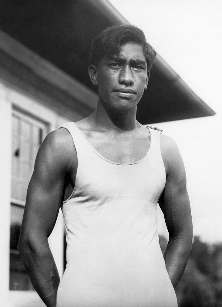 A portrait of swimming and surfing star Duke Kahanamoku, Hawaii, circa 1912.